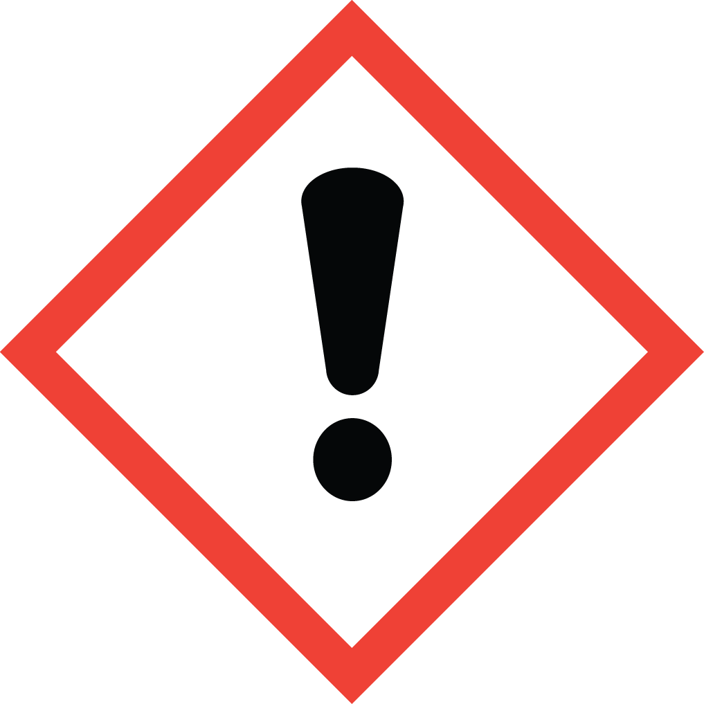 OSHA's Hazard Communication (HAZCOM) pictogram warning of chemical hazards that may have or be the following: an irritant (skin and eye), a skin sensitizer, acute toxicity (harmful), narcotic effects, a respiratory tract irritant, and hazardous to zone layer.